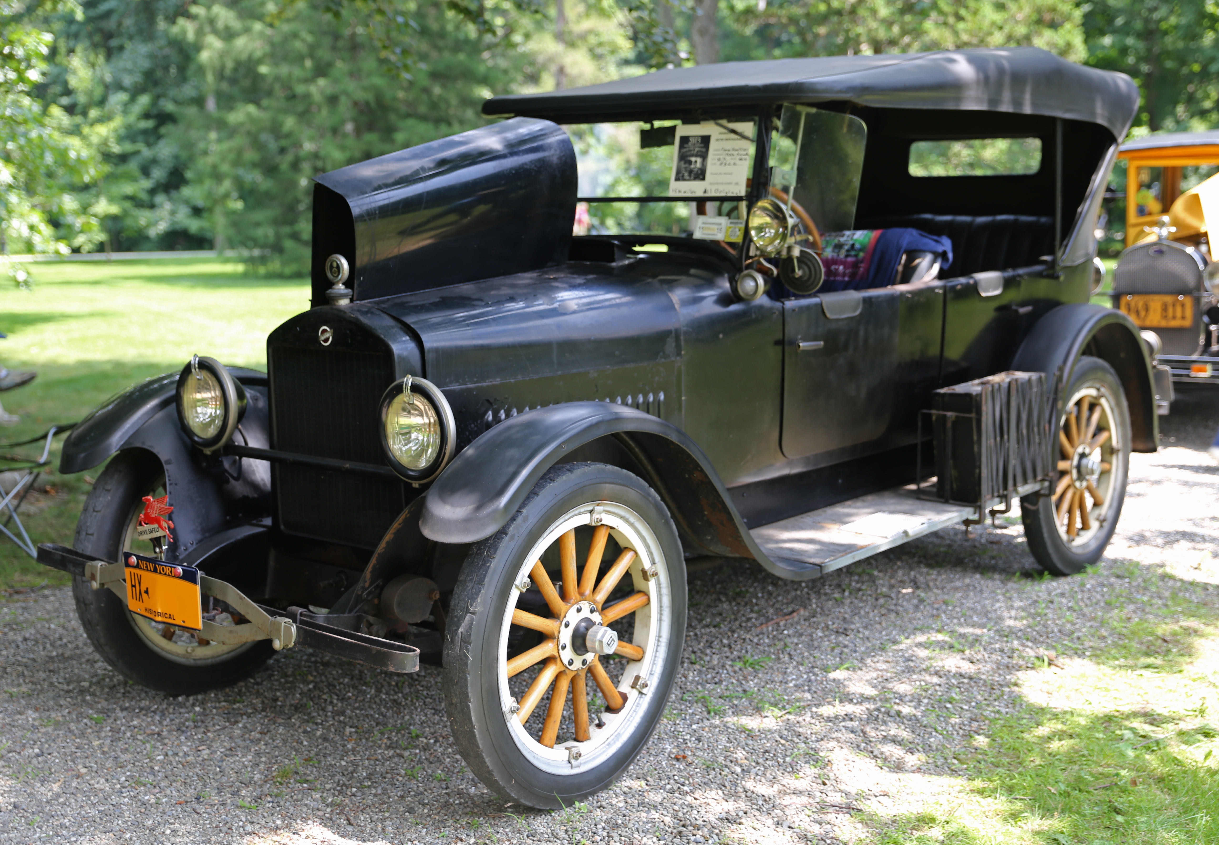 A 1922 Studebaker Light Six Touring Car (5-seater). 50-55hp and a 119-inch wheelbase.